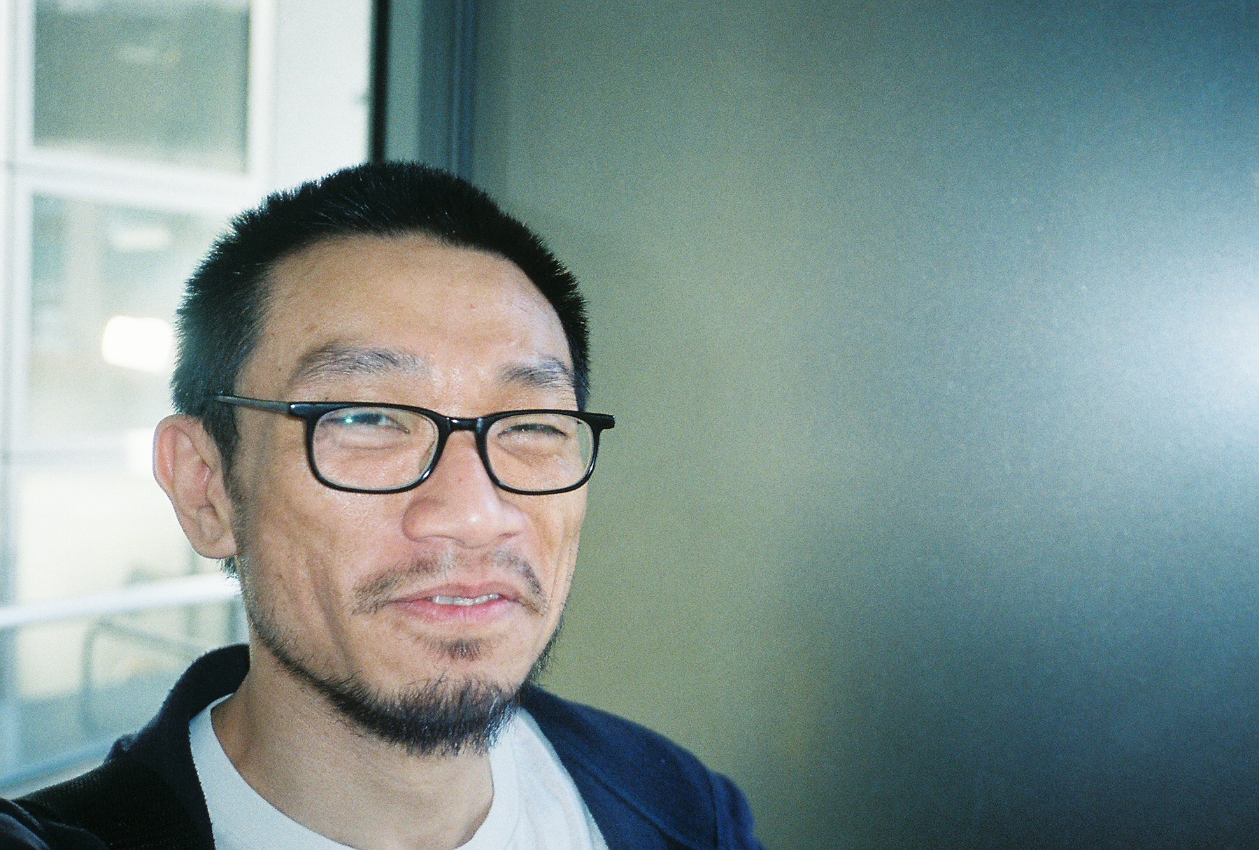 Poet Justin Chin in January 2006, photographed in San Francisco by Kevin Killian.